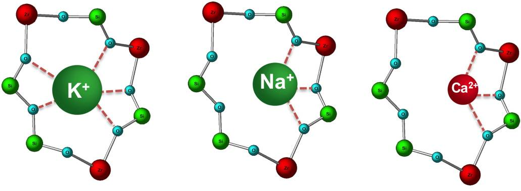 Cross-section of ZS-9 (sodium zirconium cyclosilicate) with various ions binding to it.